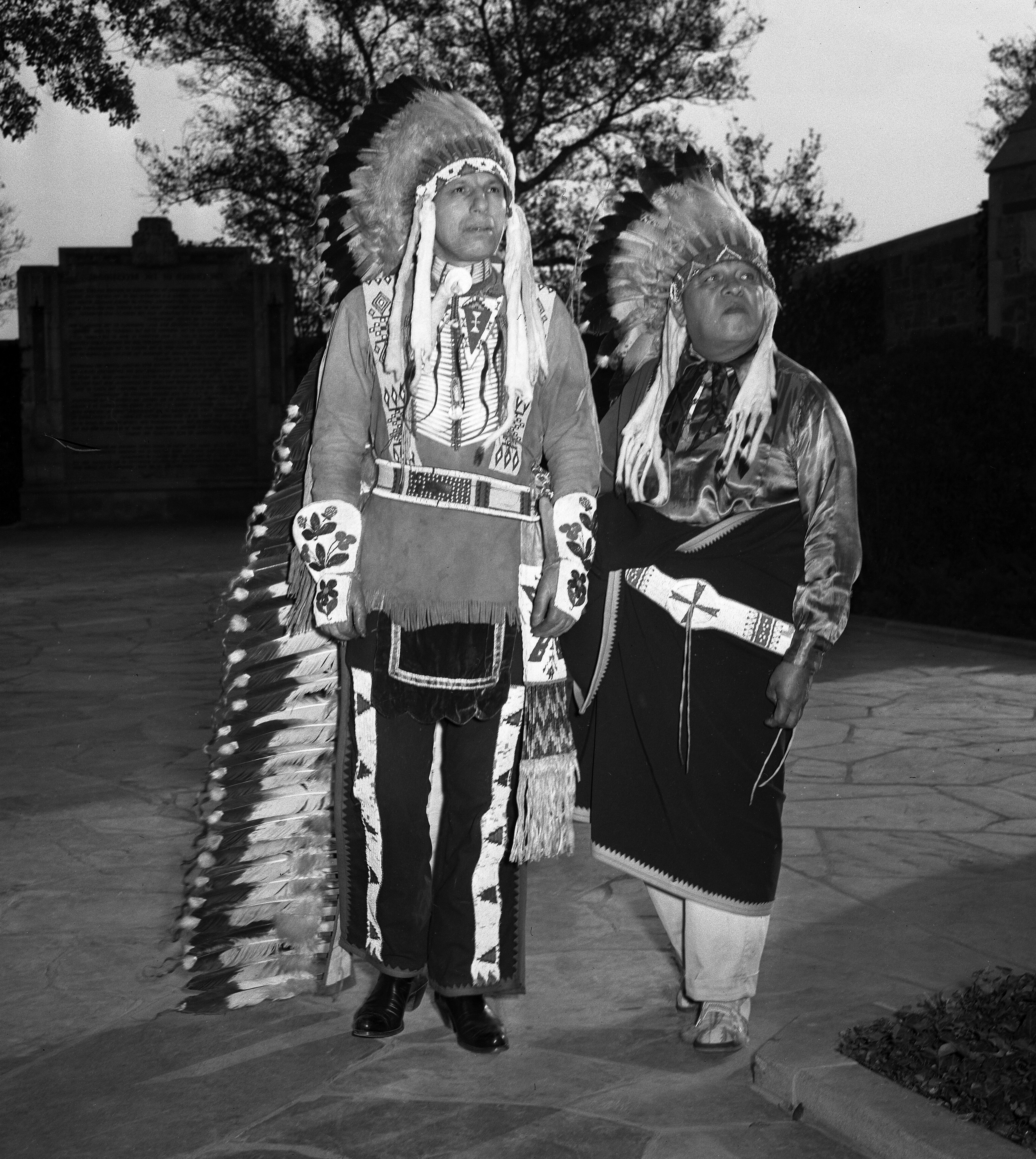 Title: Iron Eyes Cody (Sicilian-American) and Willowbird at services for Charles Wakefield Cadman (December 24, 1881 – December 30, 1946), an American composer, Forest Lawn in Glendale, Calif., 1947Published caption:"TRIBUTE: Iron Eyes Cody, Cherokee, left, and Willowbird, Pueblo, who performed religious dance and recited Lord's Prayer at services for Charles Wakefield Cadman."